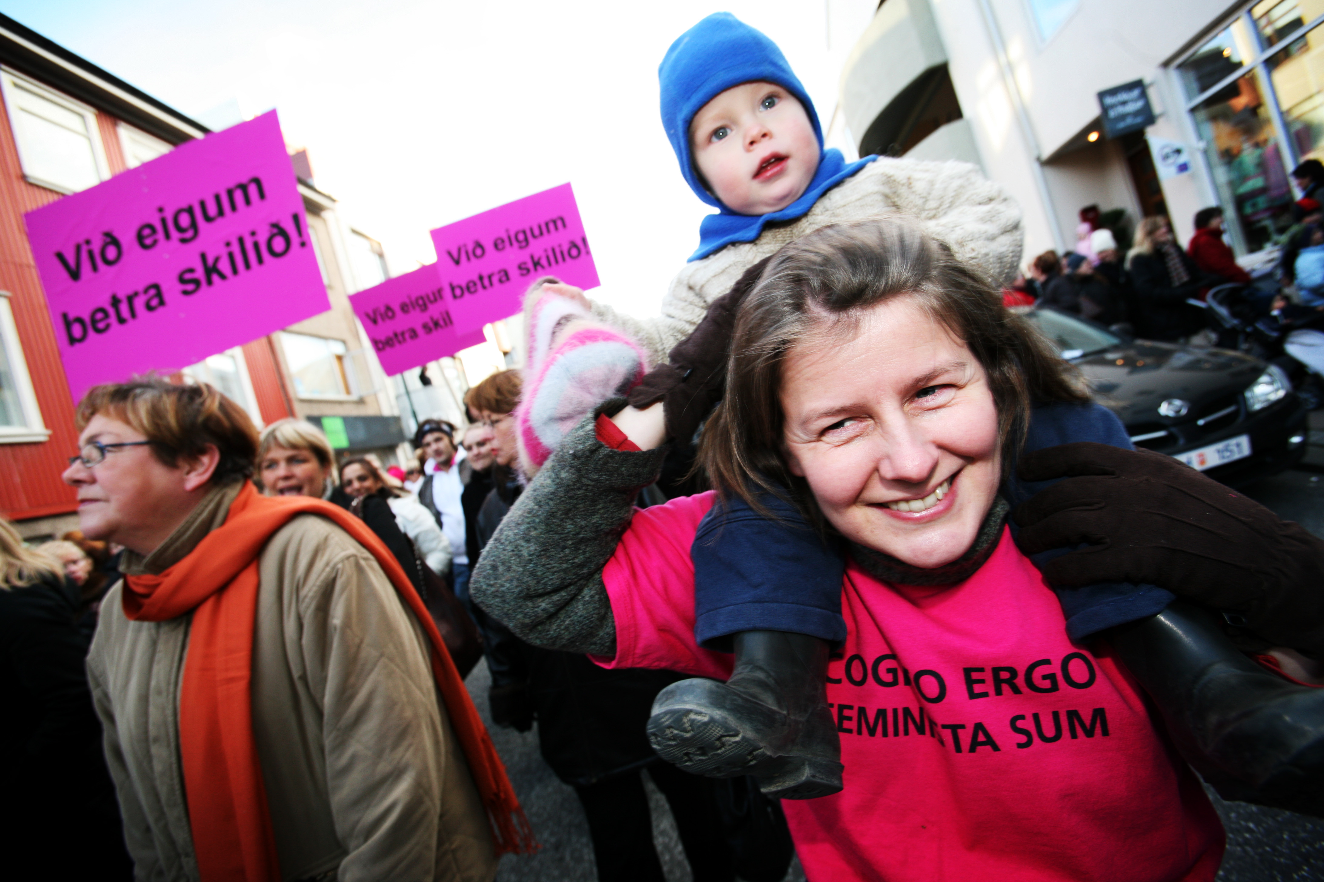 Gender equality, Politics, Freedom of expression, Iceland